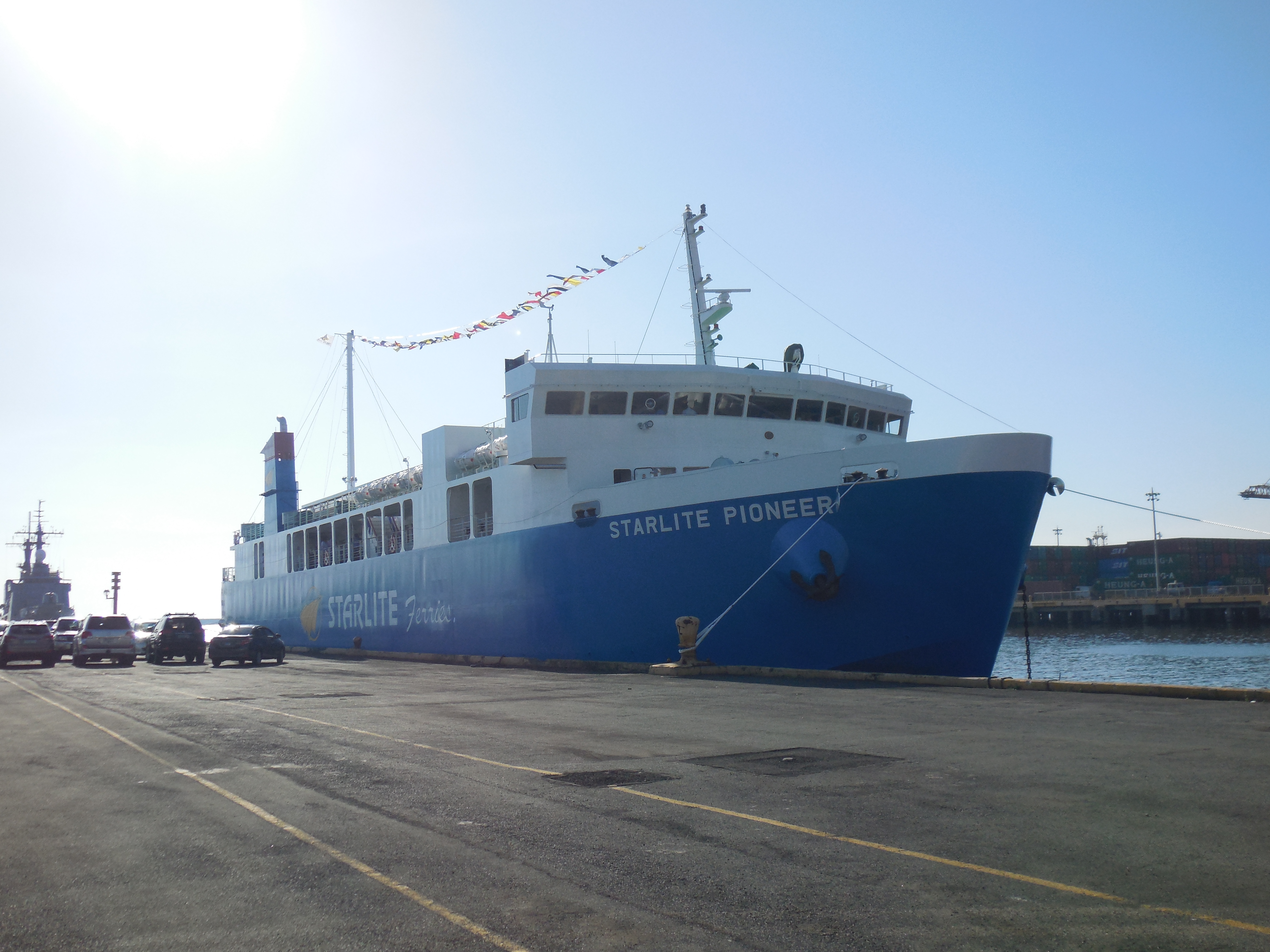 MV Starlite Pioneer, a roll-on, roll-off ferry owned and operated by Starlite Ferries, an interisland ferry company in the Philippines. Taken at Pier 13, South Harbor, Manila.